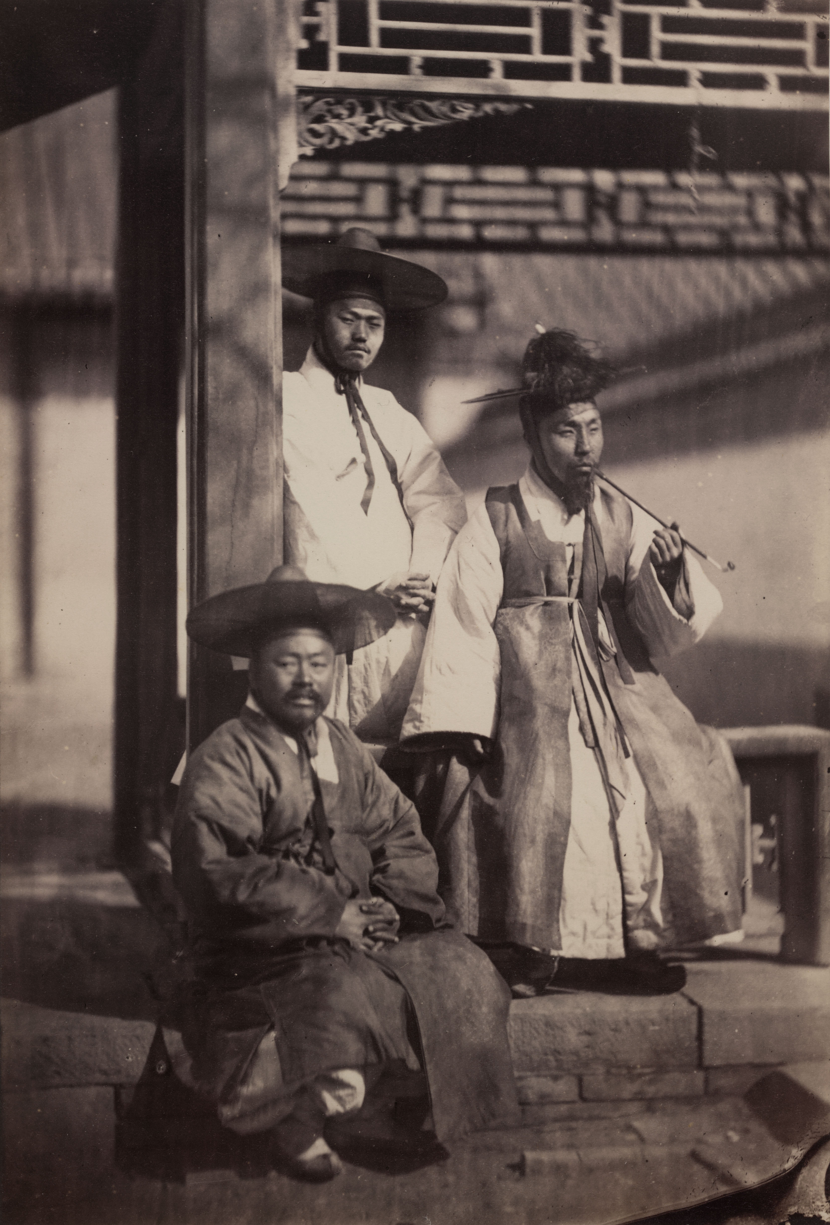 One of the oldest photographs of Korean people